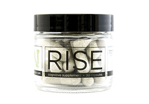 Product shot of Nootrobox RISE Workhorse